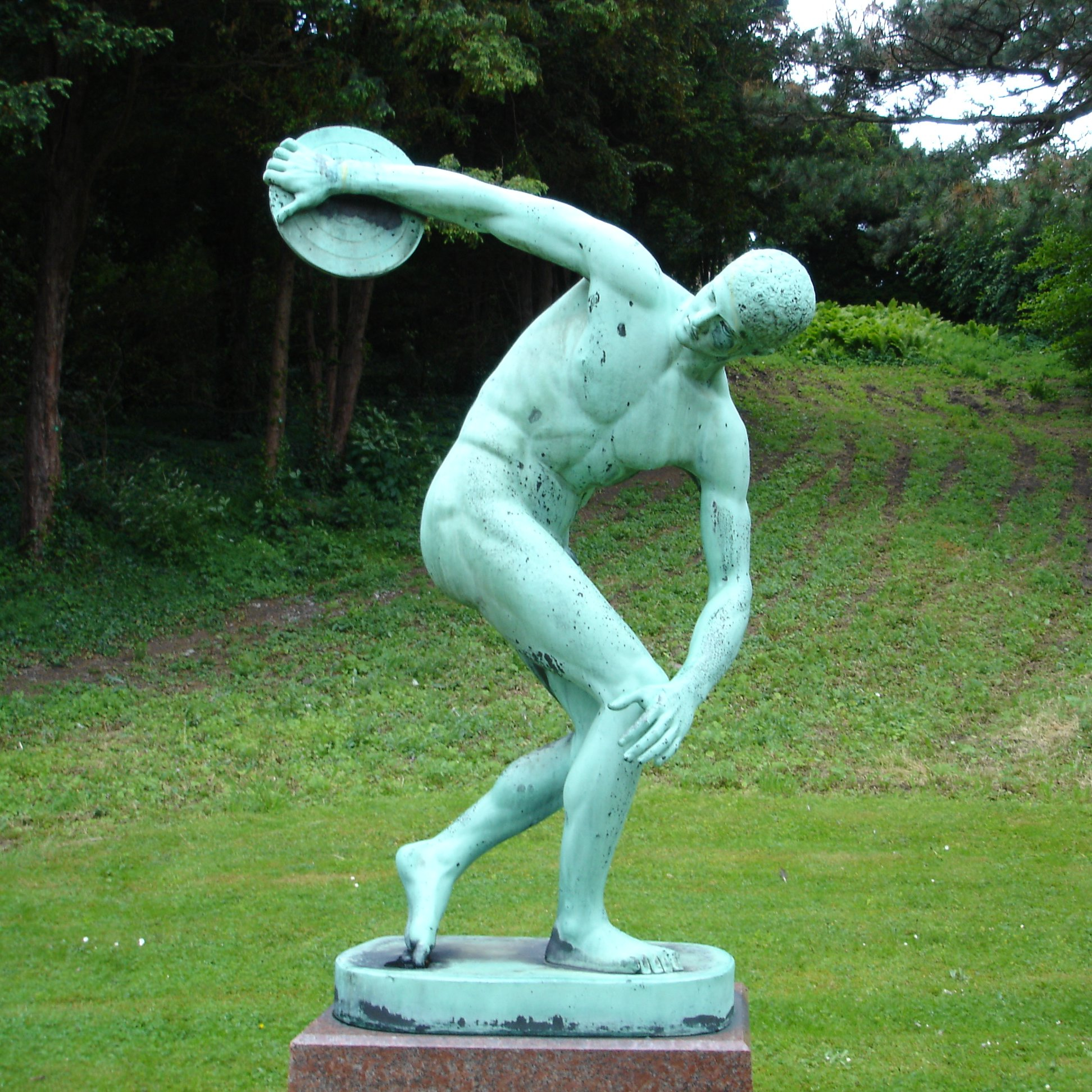 Bronze copy of Myron of Eleutherae's "Discobolus" (discus thrower) in the University of Copenhagen Botanical Garden, Copenhagen, Denmark.